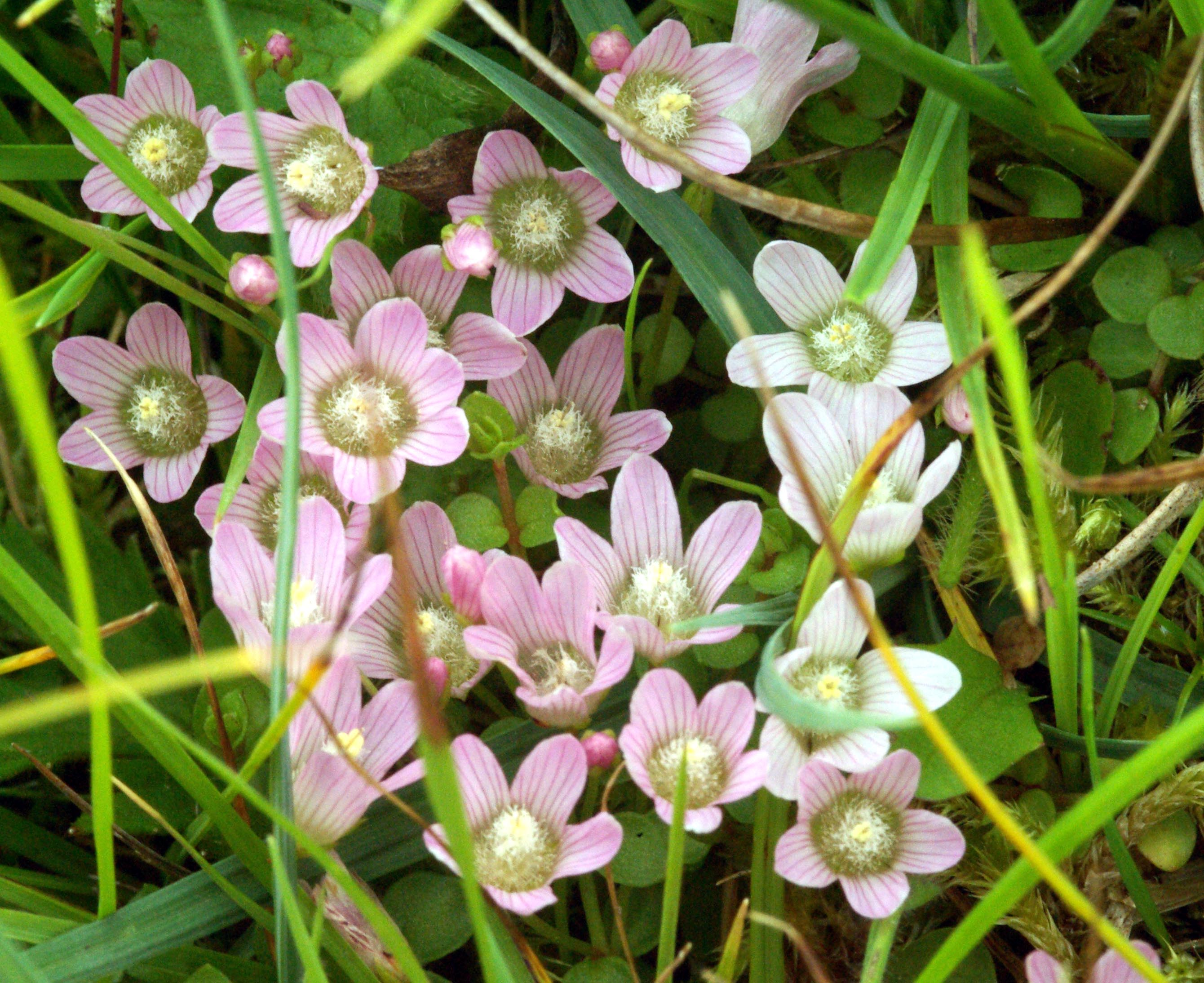 Anagallis tenella at Gors Goch nature reserve Anglesey 28 June 2011